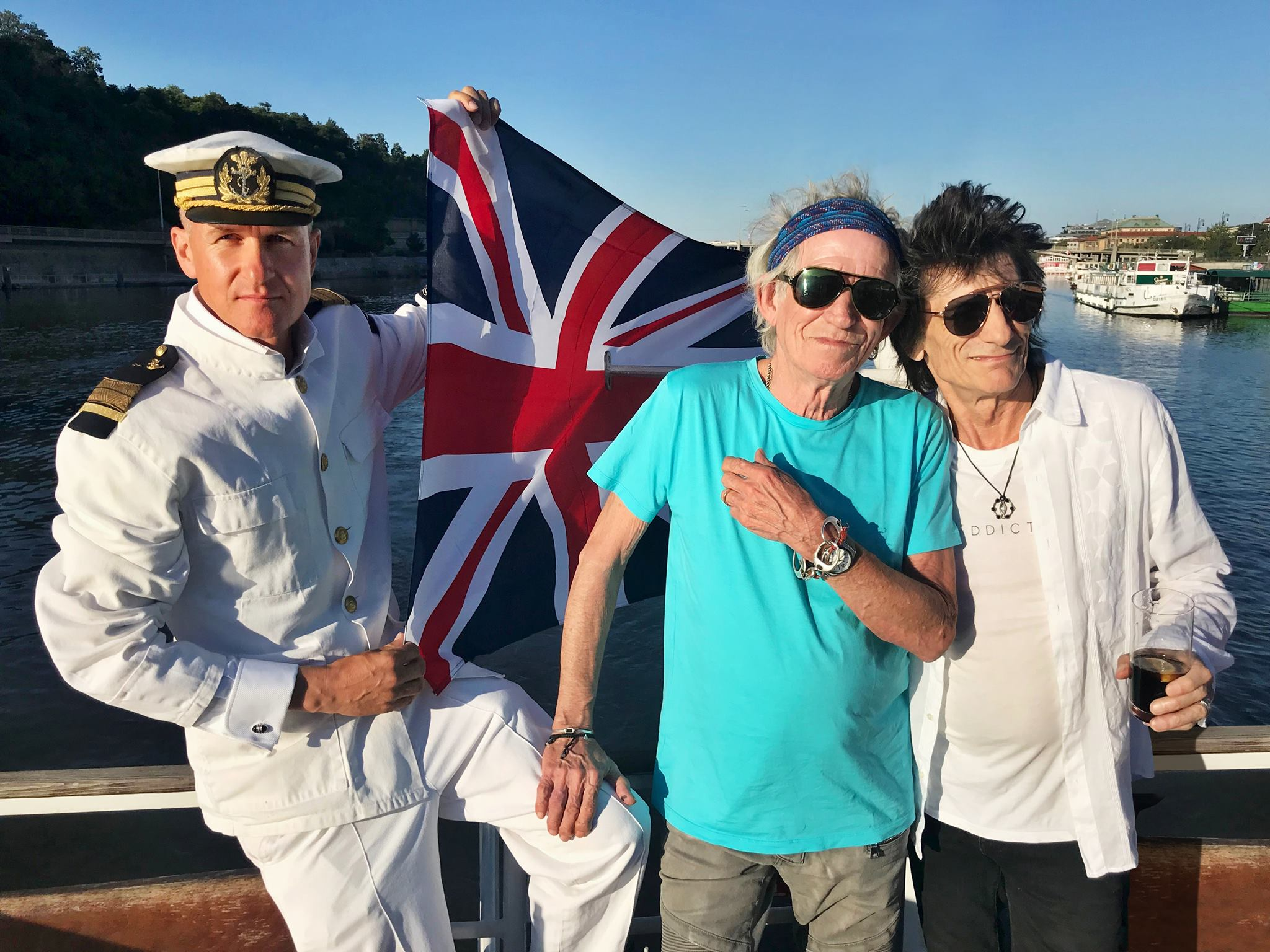 Portrait of Captain Stepan Rusnak with Rolling Stones during a cruise on the Vltava River in Prague